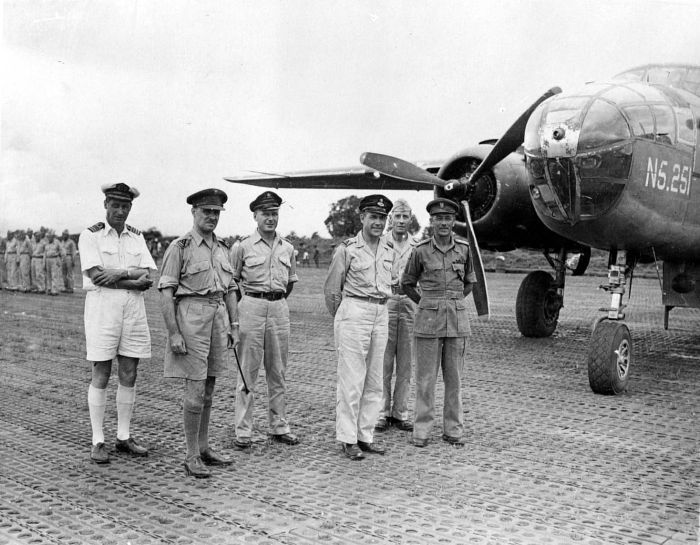 Reproduction from negative. Colonel Giebel, commander of the K.N.I.L. Troops in the Far East in Borneo (remark: designation of the Dutch colonial administration), takes leave, on Mandar airfield near MacKssar.